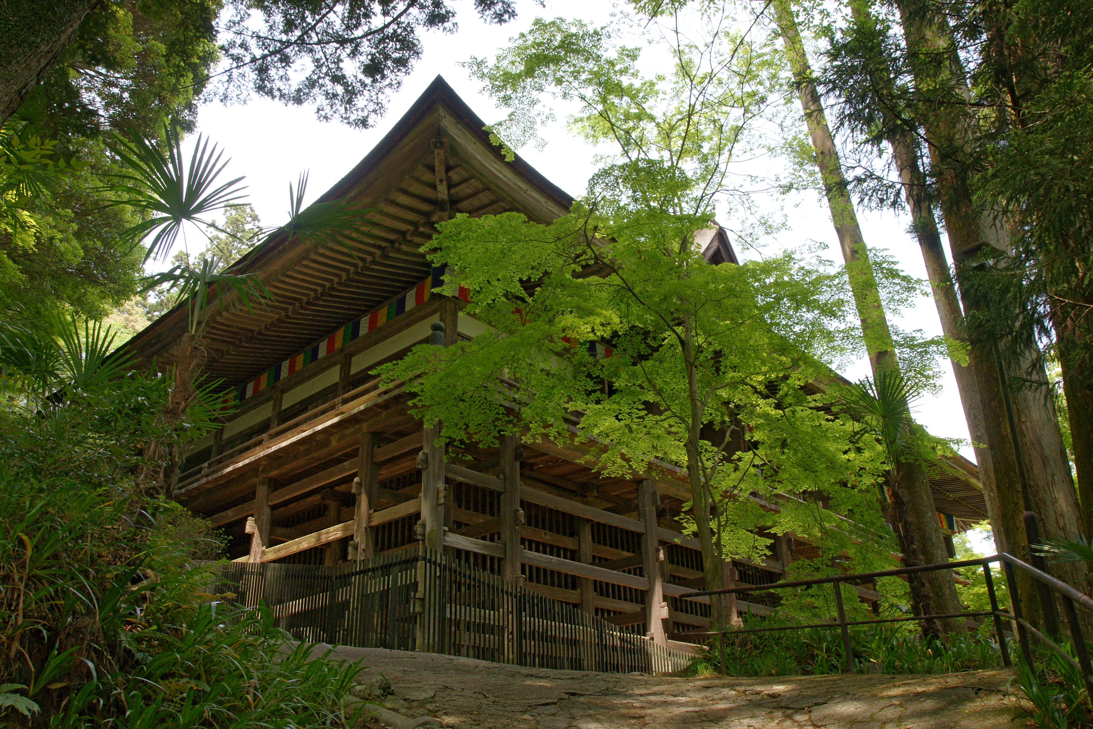 The Main Hall of Ishiyama-dera Buddhist temple (Japan's national treasure), in Otsu, Shiga prefecture, Japan